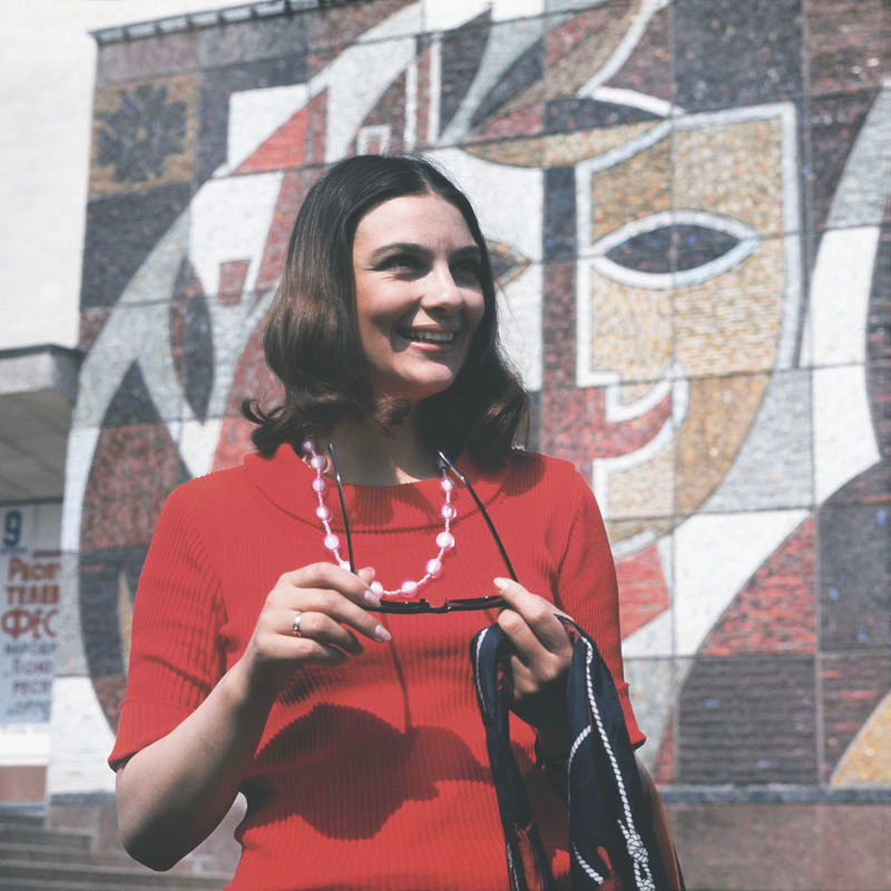 The Moldavian cinema actress Svetlana Toma (the end 60 - the beginning of 70th years).